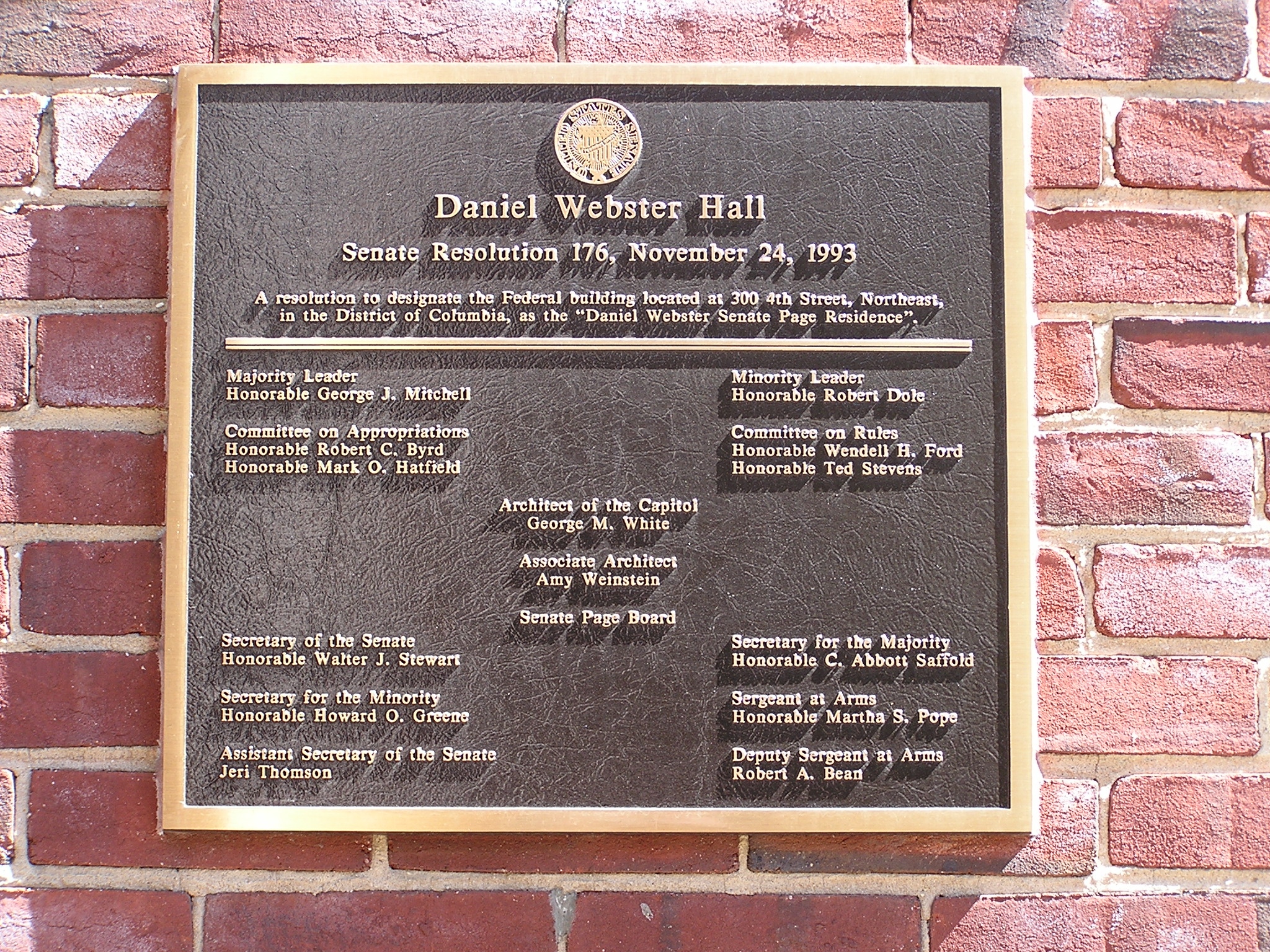 Photo of plaque outside Daniel Webster Senate Page Residence. Taken by Meamemg Released under